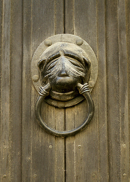 This is a scan from a 35mm transparency which I took in 1984 in Stamford, Lincolnshire, England. It shows the Brazenose Knocker on a doorway which is now part of Stamford School. The knocker is a replica of the one originally brought to Stamford in 1333 by students who had left Brazenose College, Oxford, after a dispute, and set up a rival college in Stamford for some years until ordered to return by King Edward IV. This scan is in the Public Domain (however, I retain ownership and copyright of the original transparency and any higher-resolution scans derived from it). If this image is used outside Wikipedia a photographer's credit (Simon Garbutt) would be much appreciated! SiGarb 22:31, 2 January 2006 (UTC)